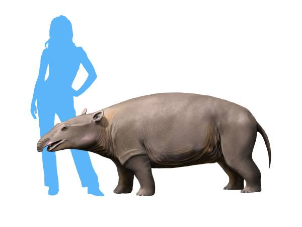 Life reconstruction of Moeritherium lyonsi